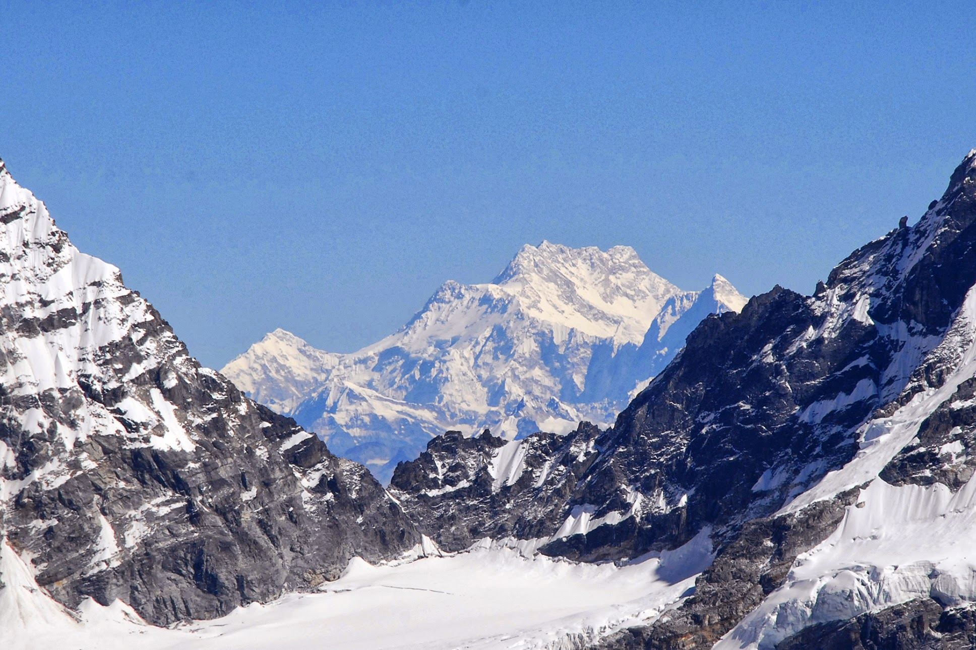 Far away on the horizon you can see the Kanchenjunga - the third summit of the world 8586 m.